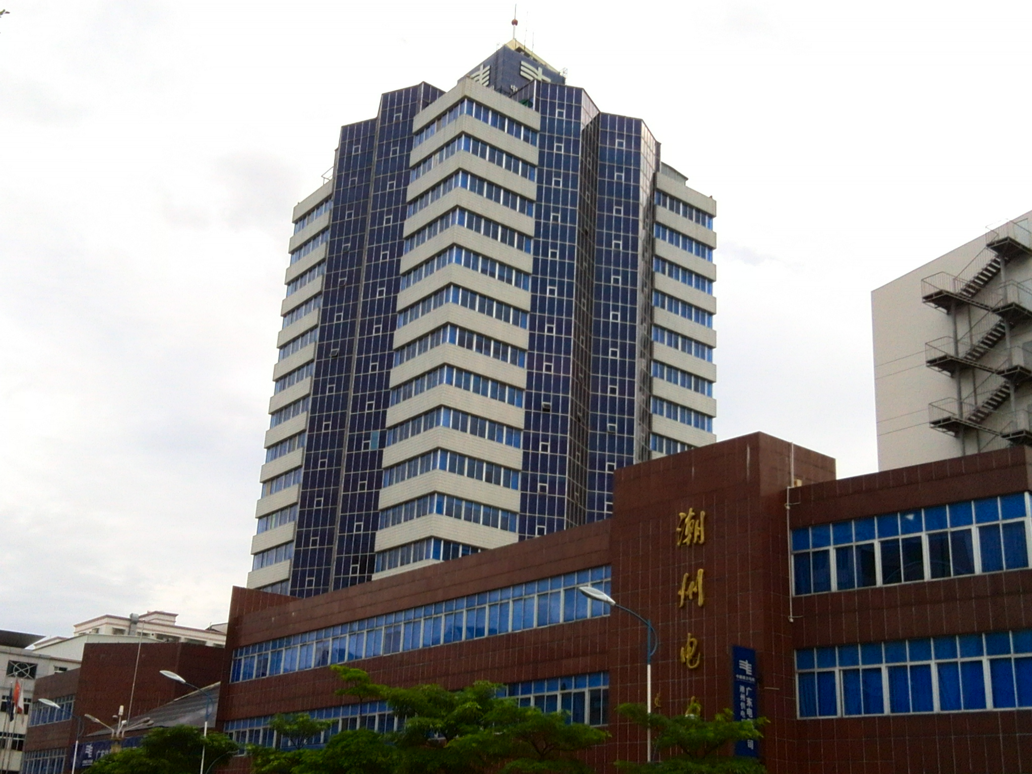 Chaozhou Power Supply Bureau.